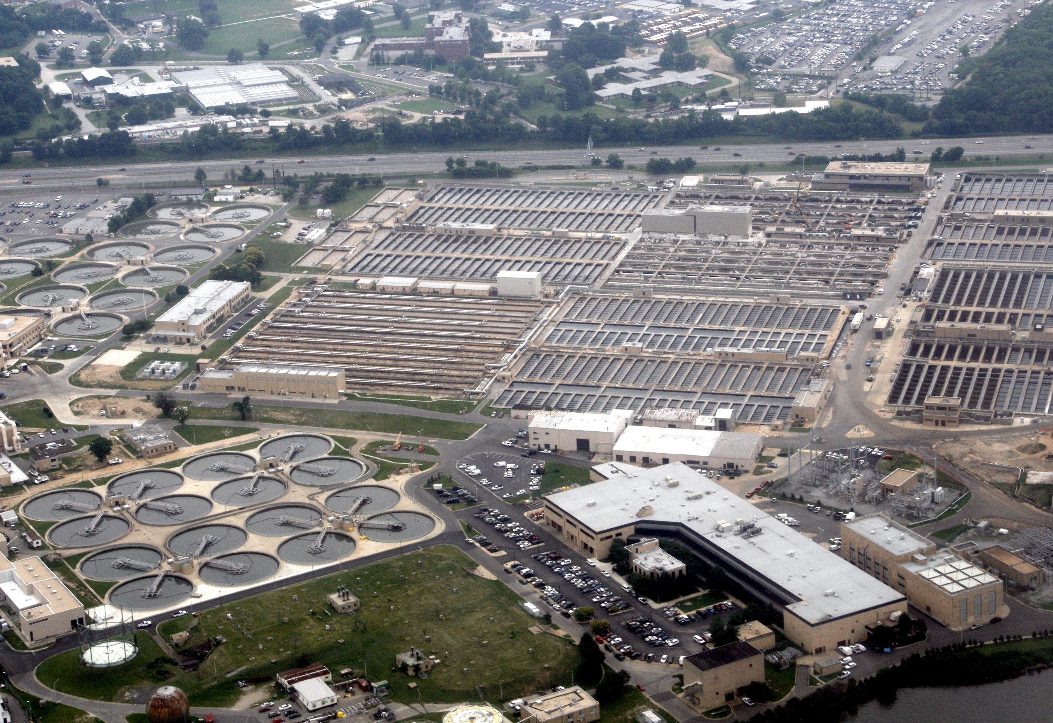 Aerial view of the Blue Plains Wastewater Treatment Plant, Washington, D.C.